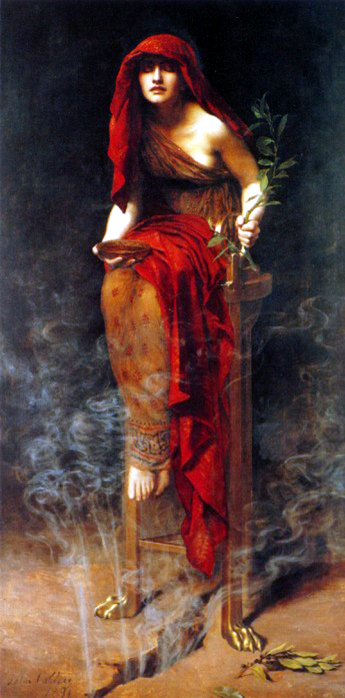 The priestess of the oracle at ancient Delphi, Greece.